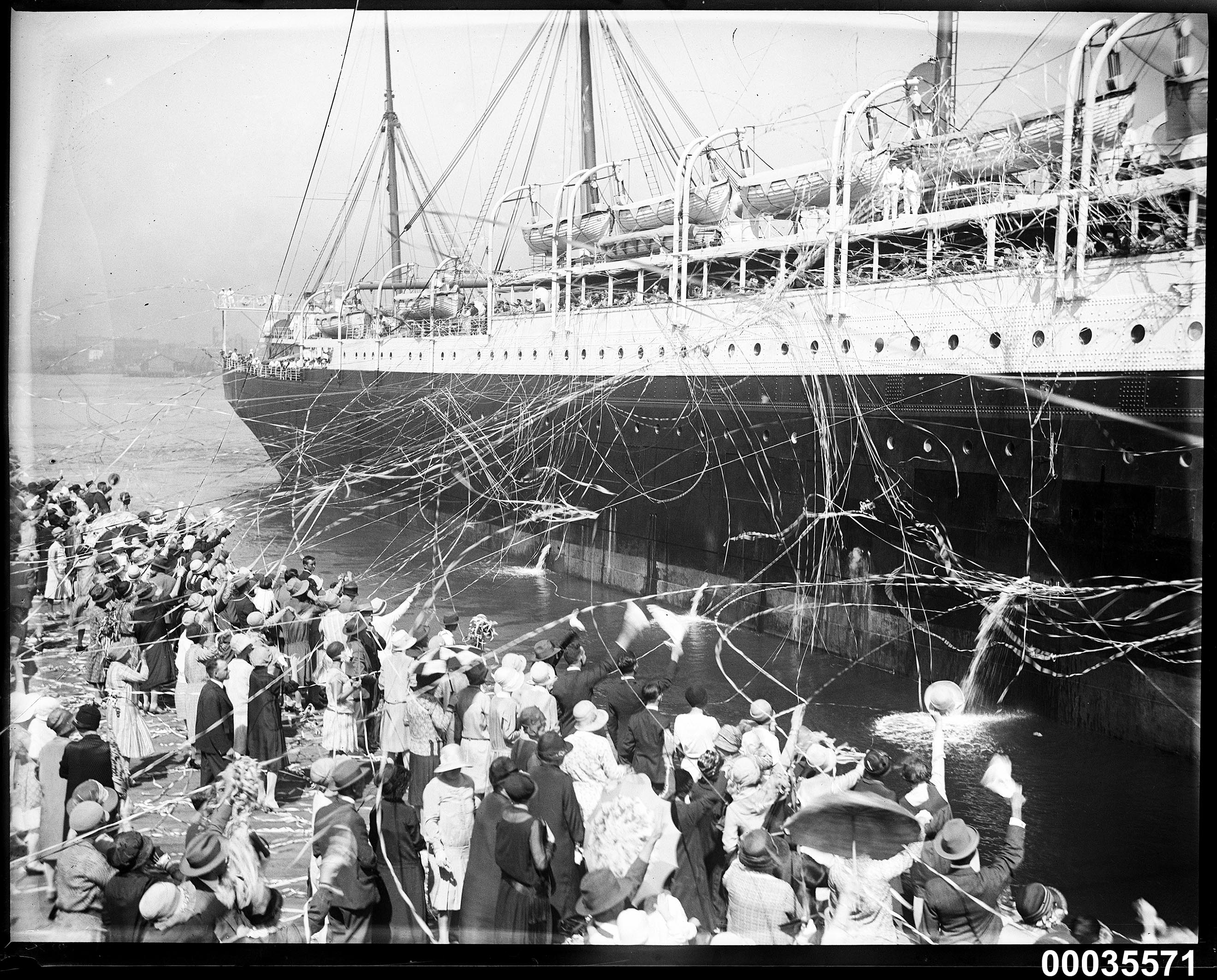 SS CERAMIC was built in 1912 and operated for the White Star Line on the Australian trade run. It only operated on this route for one year before becoming a troopship during World War I. After the war it once more traded on the passenger route between Liverpool and Australia. It was requisitioned once more during World War II for war services. In 1942, the ship was en route to Australia when it was torpedoed in the Atlantic Ocean by a German U-boat. Of the 657 people onboard, only one survived. This photo is part of the Australian National Maritime Museum’s Samuel J. Hood Studio collection. Sam Hood (1872-1953) was a Sydney photographer with a passion for ships. His 60-year career spanned the romantic age of sail and two world wars. The photos in the collection were taken mainly in Sydney and Newcastle during the first half of the 20th century. The ANMM undertakes research and accepts public comments that enhance the information we hold about images in our collection. This record has been updated accordingly. Photographer: Samuel J. Hood Studio Collection Object no. 00035571